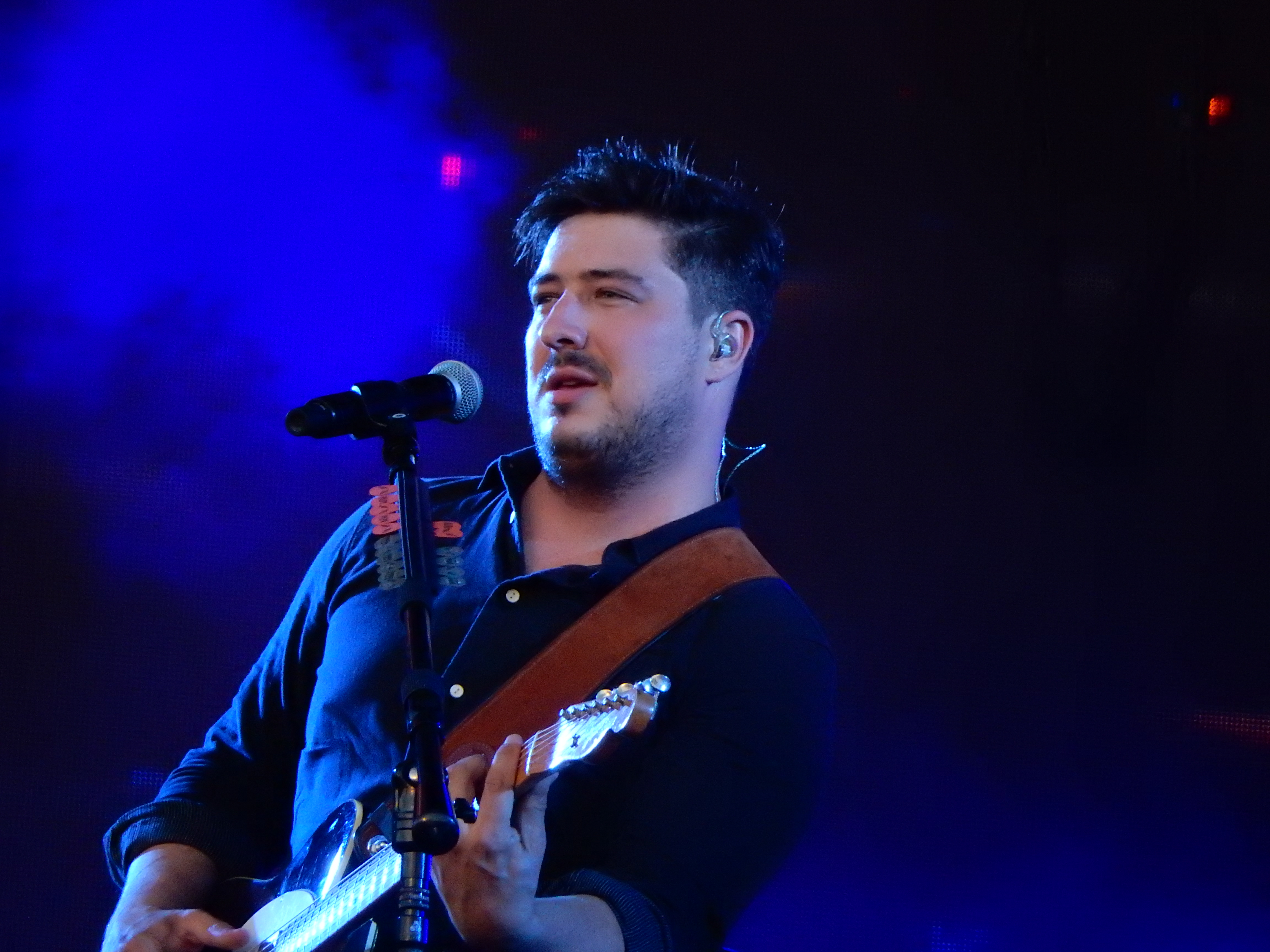 Mumford & Sons, BST Hyde Park, London